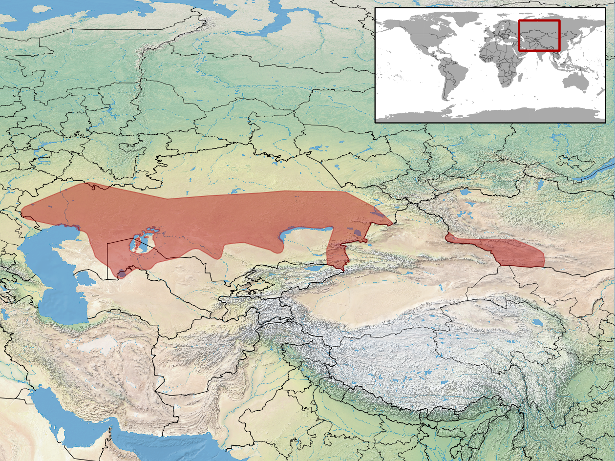 geographic distribution of Alsophylax pipiens (Native: China; Kazakhstan; Mongolia; Russian Federation; Turkmenistan; Uzbekistan)